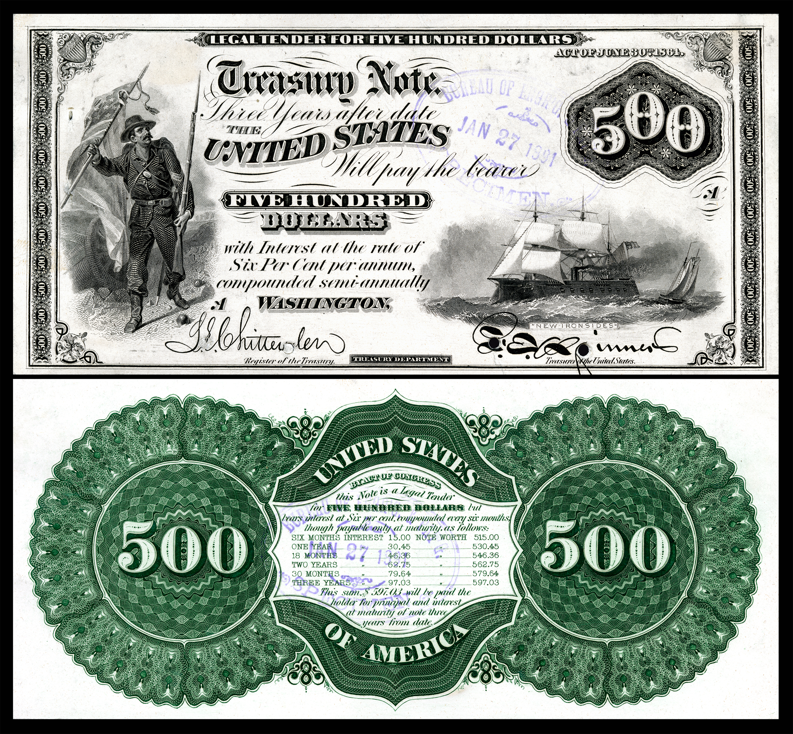 US-$500-CITN-1864-Fr-194a (Proof)